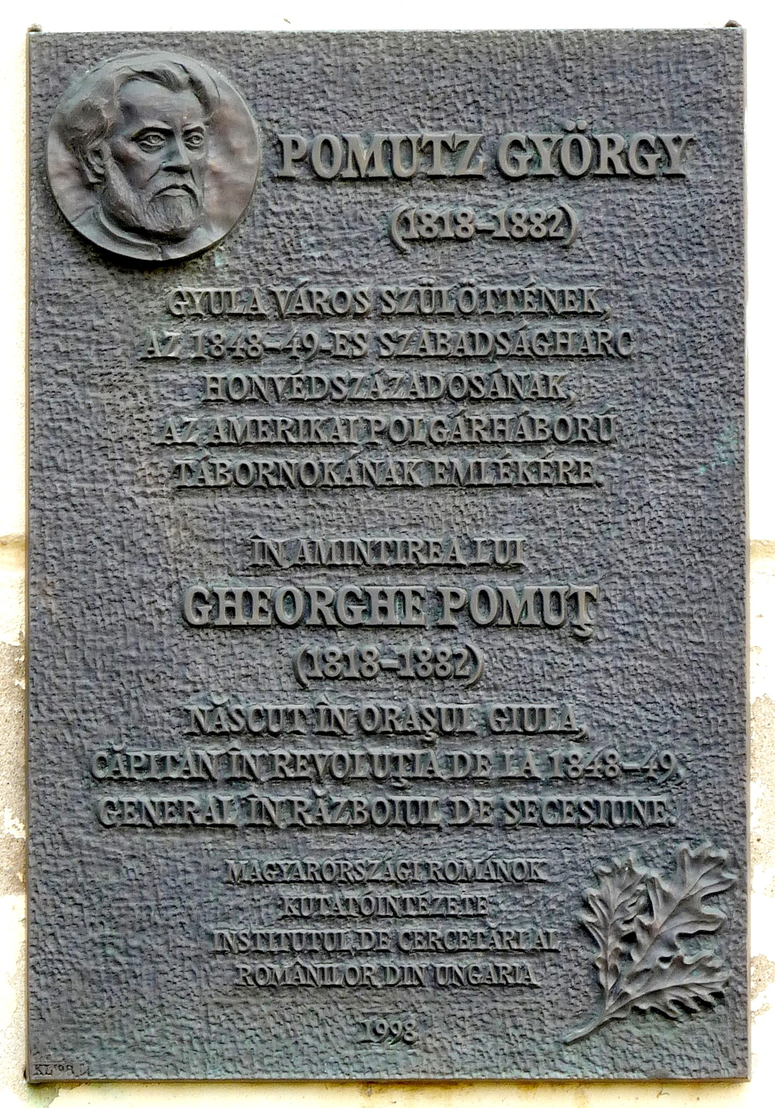 Memorial tablet of George Pomutz, Hungarian-Romanian officer during the Hungarian Revolution of 1848, general in the Union Army in the American Civil War, diplomat in Gyula, Hungary.